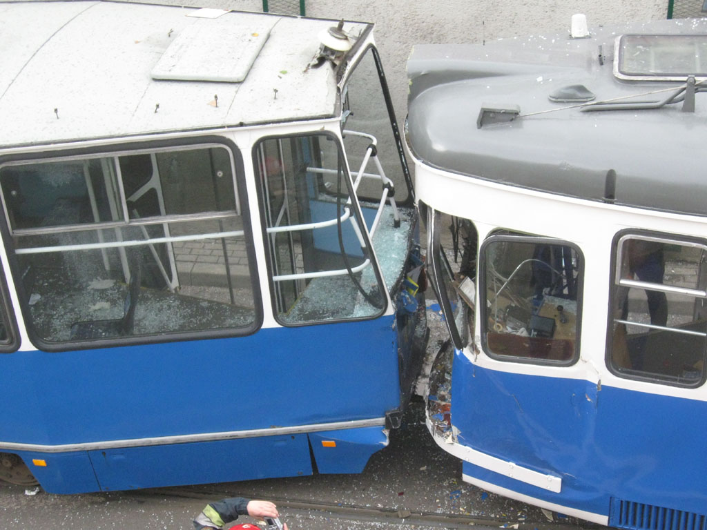 Tram in Kraków, Poland